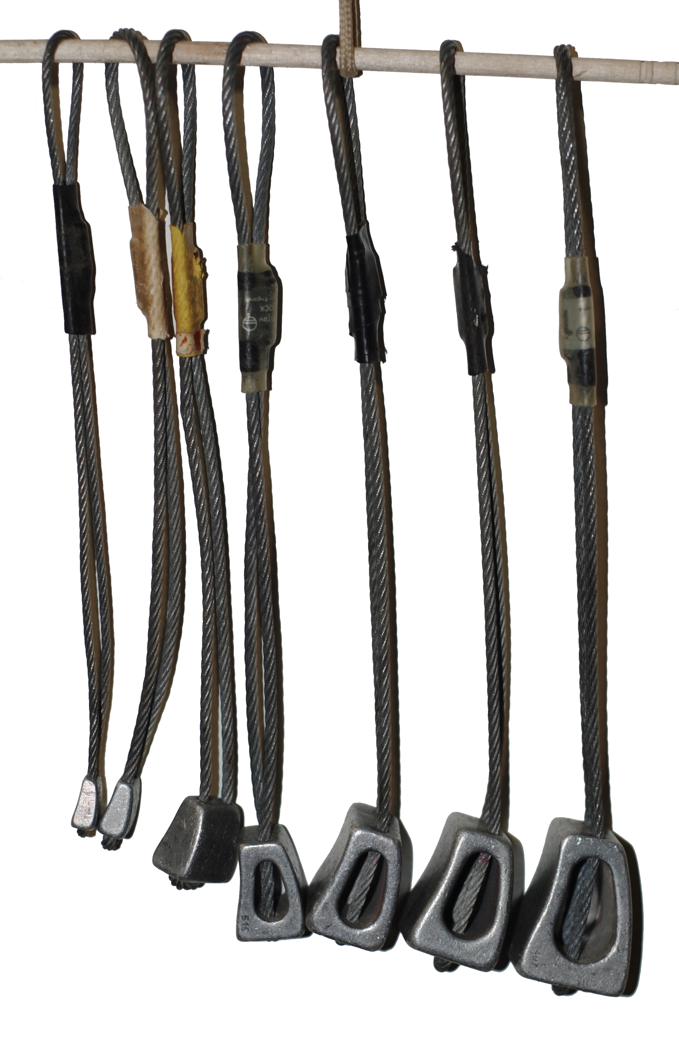 Wild Country Rocks - type of climbing nuts